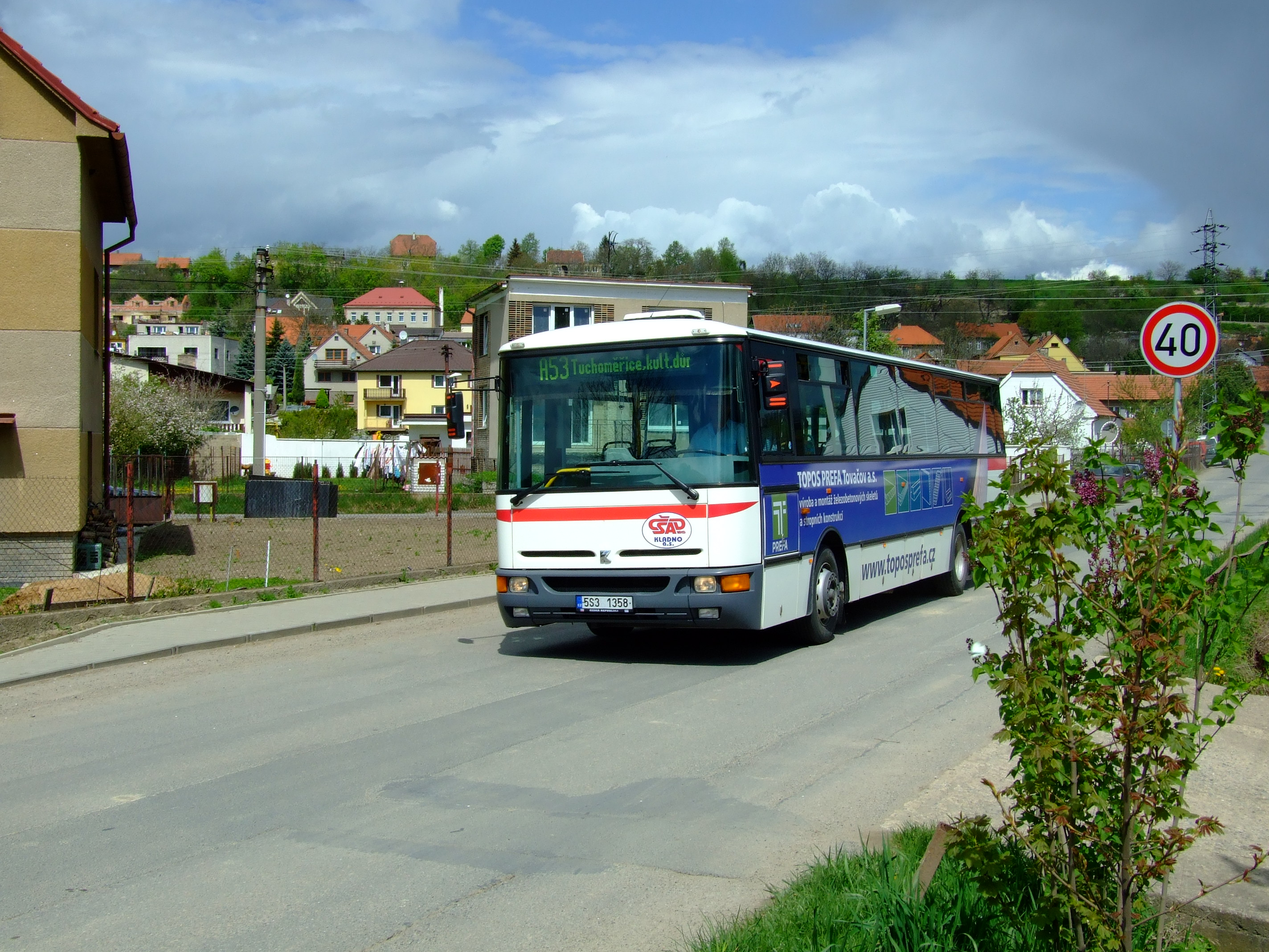 Tuchoměřice village near Prague, CZ